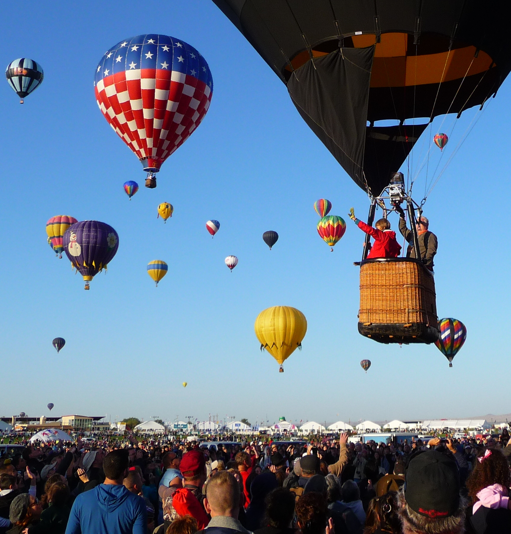 See file name.